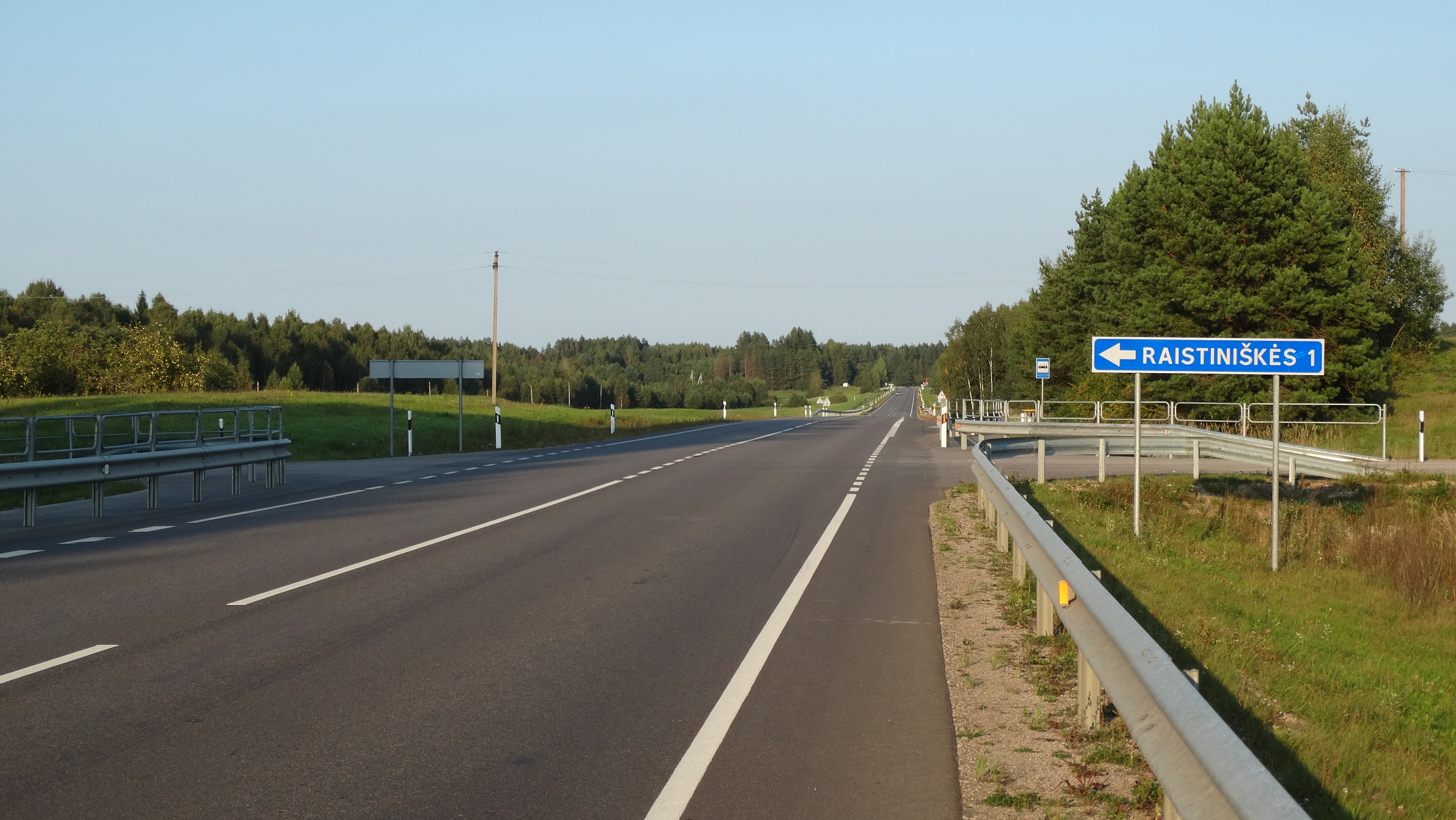 Road A6, Raistiniškės, Zarasai district, Lithuania